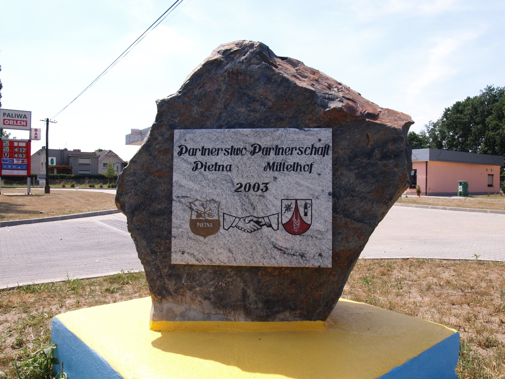 Memorial stone in remembrance of the village twinning of Pietna and Mittelhof since 2003, located in front of a filling station at the entry to the village of Pietna